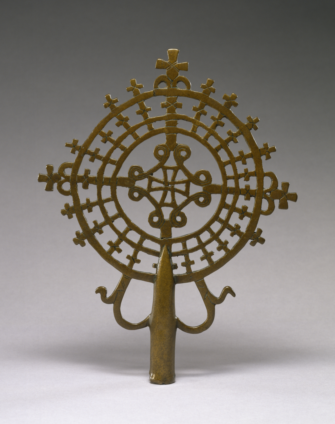 This cross, which survives in nearly pristine condition, was cast in one piece, with the base and body formed of the same material. The high degree of perforation, creating a radiating lattice of crosses, would have been difficult to achieve in any other medium. Because of its inherent strength, bronze was ideally suited to this kind of treatment. The design is rigorously geometric, dominated by the interaction of circular and cruciform shapes. The curving ribbons enclosing the central cross differentiate this space from the concentric rings around it. The central cross, therefore, remains the focus of the object and is further distinguished by its open-work construction. The many small crosses radiating from the hub of this wheel-like form allude to the symbolic, regenerative properties of the cross. The form of this "wheel" cross, is common to the province of Lasta, site of the churches of Lalibala.